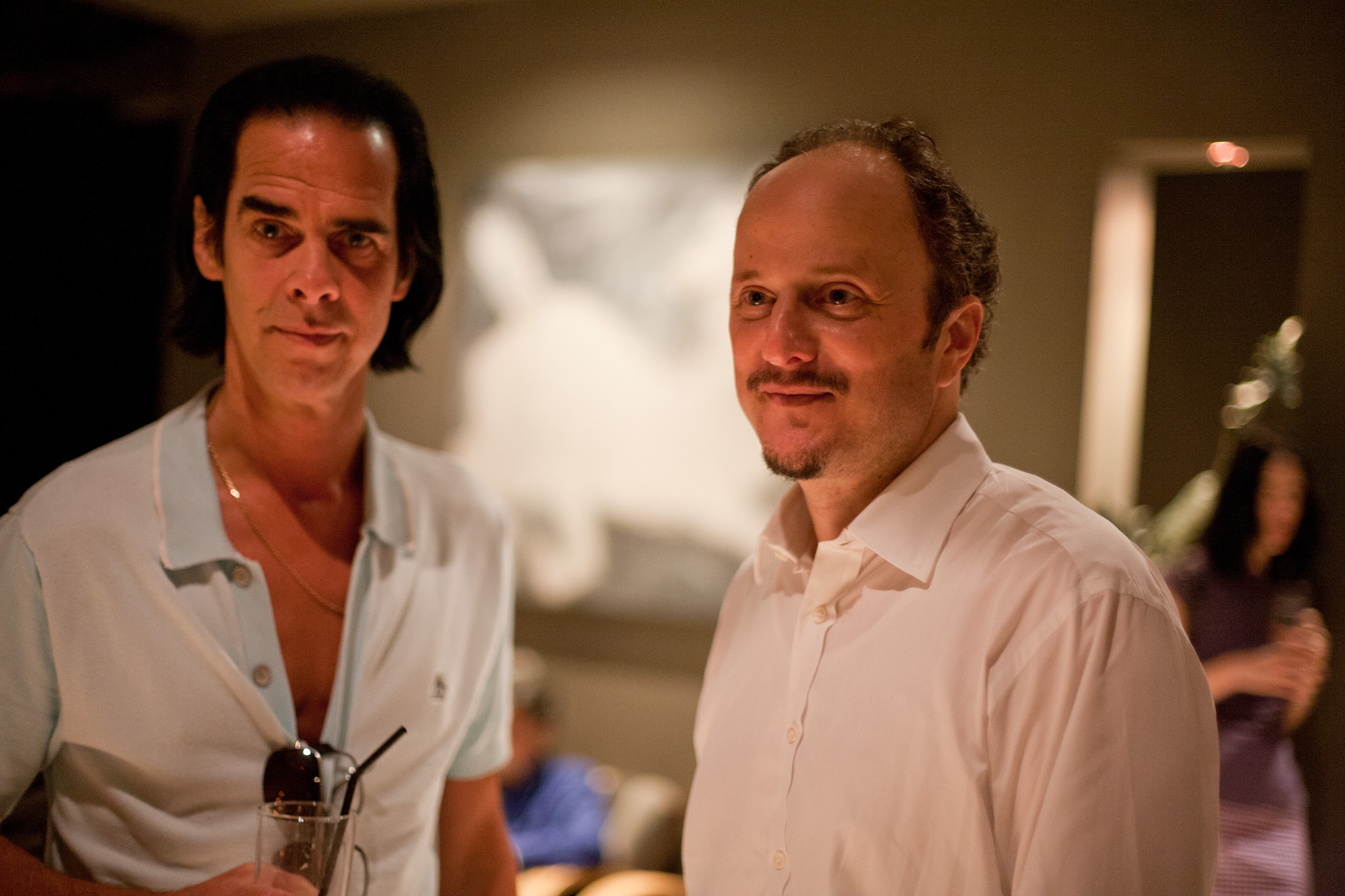 Ubud Writers & Readers Festival 2012. Image credit Sally May Mills.